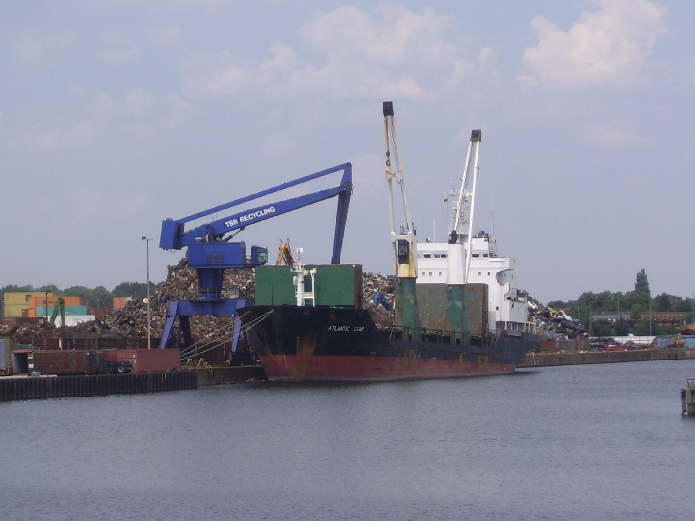 The Atlantic Star loading scrap metal at the TSR-terminal in the Industrial port, Dock-E Bremen